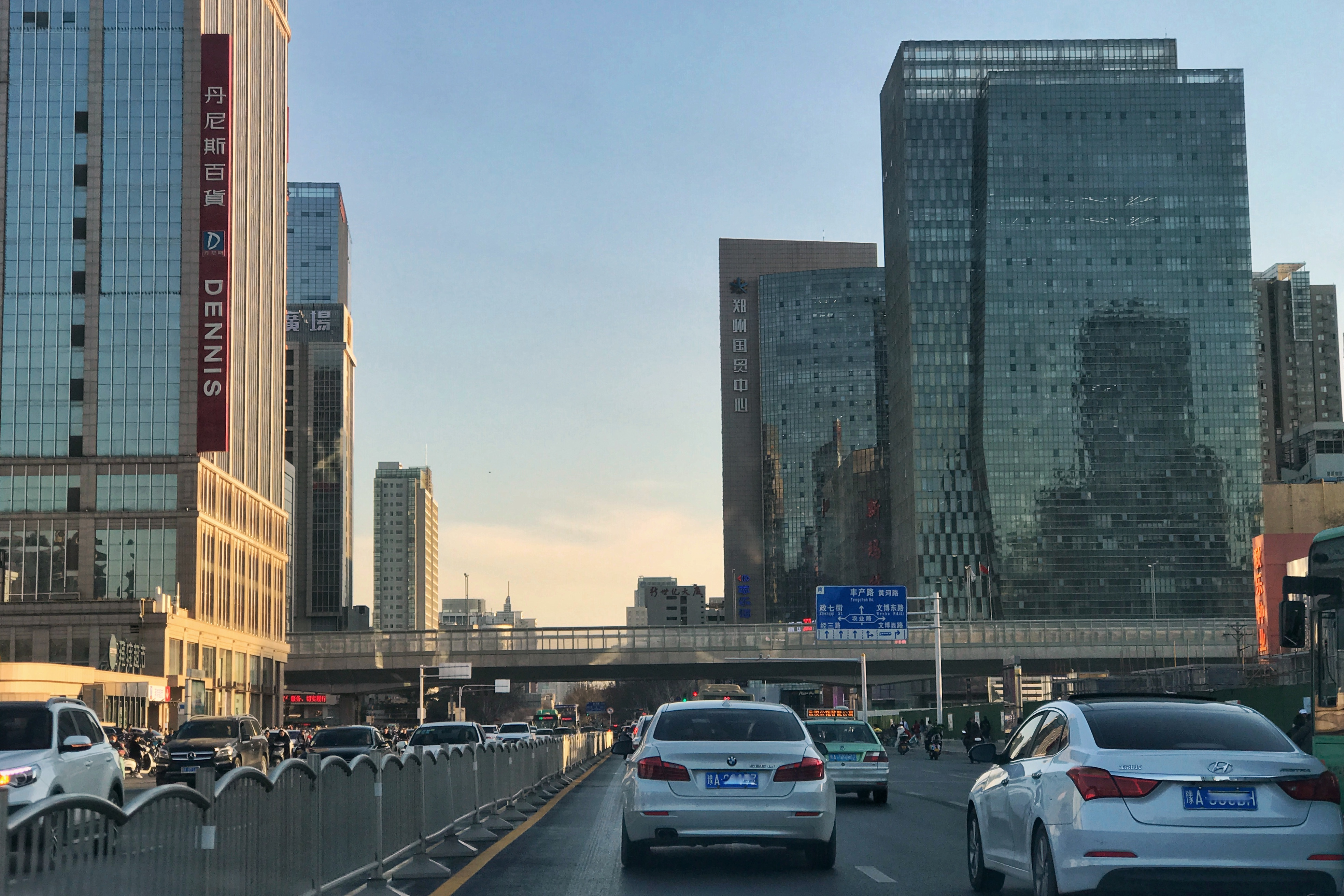 Near the crossing of Huayuan Road and Nongye Road